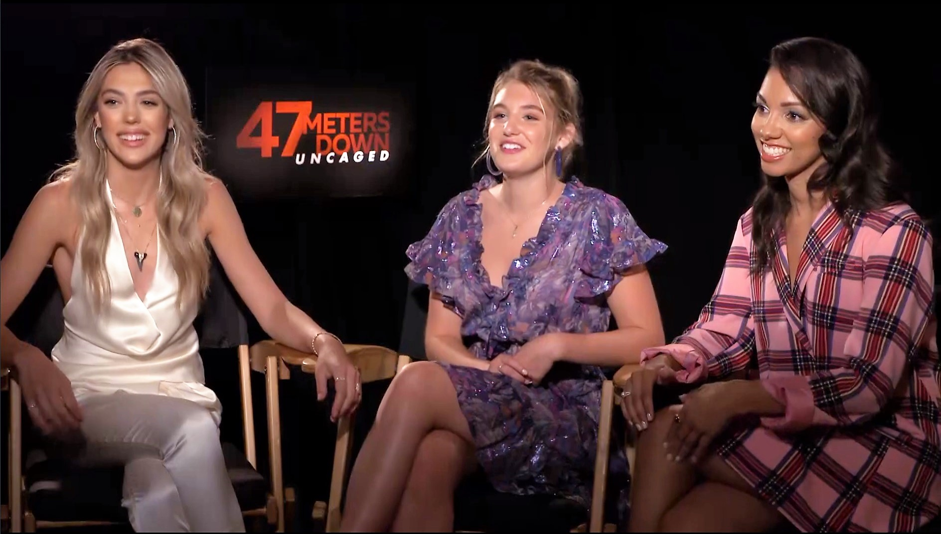 Left to right: Actresses Sistine Stallone, Sophie Nélisse, Corinne Foxx interviewed about their film "47 Meters Down: Uncaged" by Dulce Osuna 🦈 Sistine Stallone & Corinne Foxx talk the advice they didn't take from their famous dads by Dulce Osuna